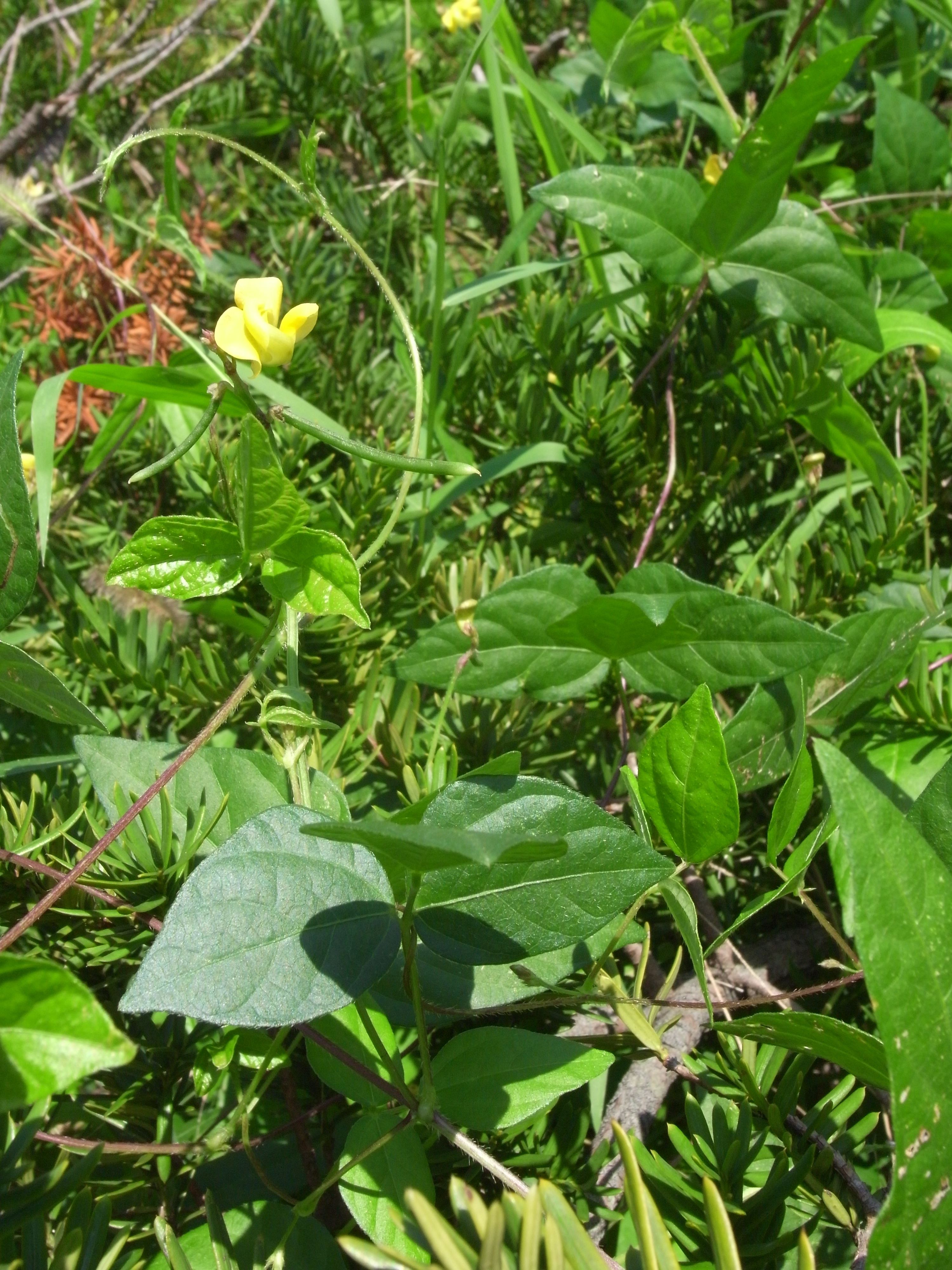 Vigna angularis var. nipponensis